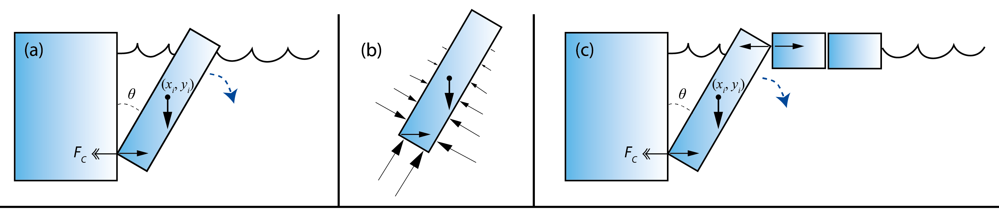 Schematic illustration of a so-called unequilibrium calving process of a large iceberg (here in the form of top-out calving, i.e. the top of the iceberg rotates (‘capsizes’) away from the glacier front). The force acting on the glacier front (calving-contact force, FC) in ‘upglacier’ direction and its counterpart acting in ‘downglacier’ direction are thought to be responsible for triggering low-frequency seismic waves (‘glacial earthquakes’). (a) Undisturbed calving. The dashed blue arrow indicates the rotational direction of the iceberg; the double-arrow indicates FC, all other forces are indicated by simple solid black arrows; xi and yi are the coordinates of the center of mass of the iceberg; θ is the angle of rotation. (b) Force vectors acting on the capsizing iceberg (e.g. gravity, buoyancy, fluid resistance). (c) Scenario in (a) extended by the ice mélange which floats in front of the glacier, providing a second contact force.